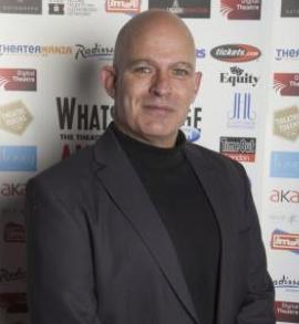 Taken at What's On Stage Awards